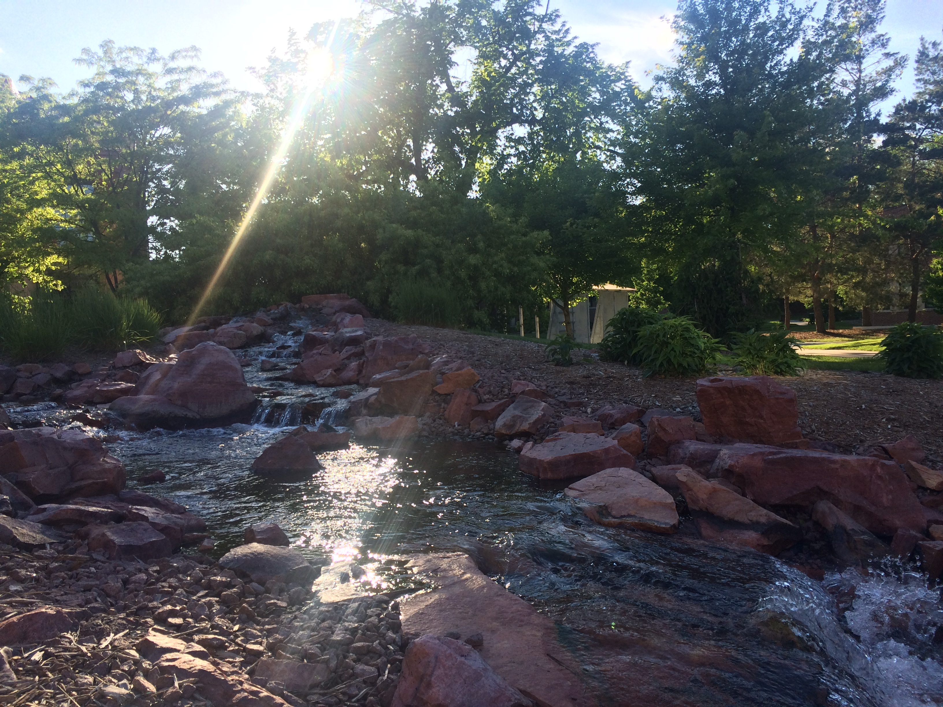 The Babbling Brook under the Sunbeams